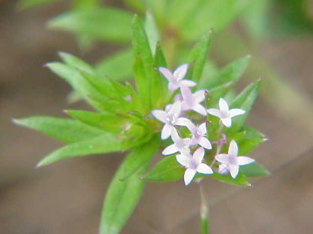 Species: Sherardia arvensis Family: Rubiaceae Image No. 4